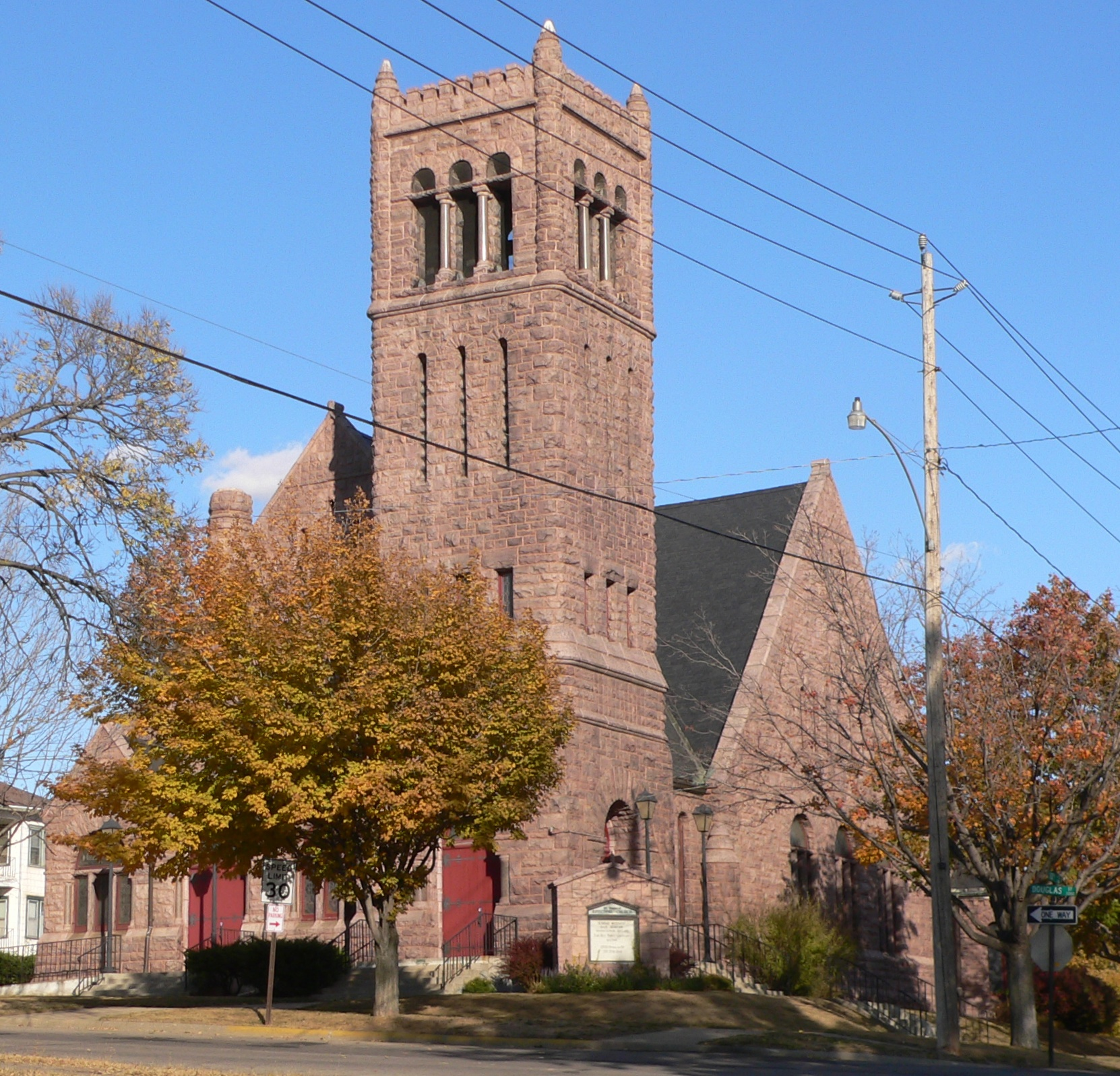 St. Thomas Episcopal Church, located at northeast corner of 12th and Douglas Streets in Sioux City, Iowa; seen from the southwest.